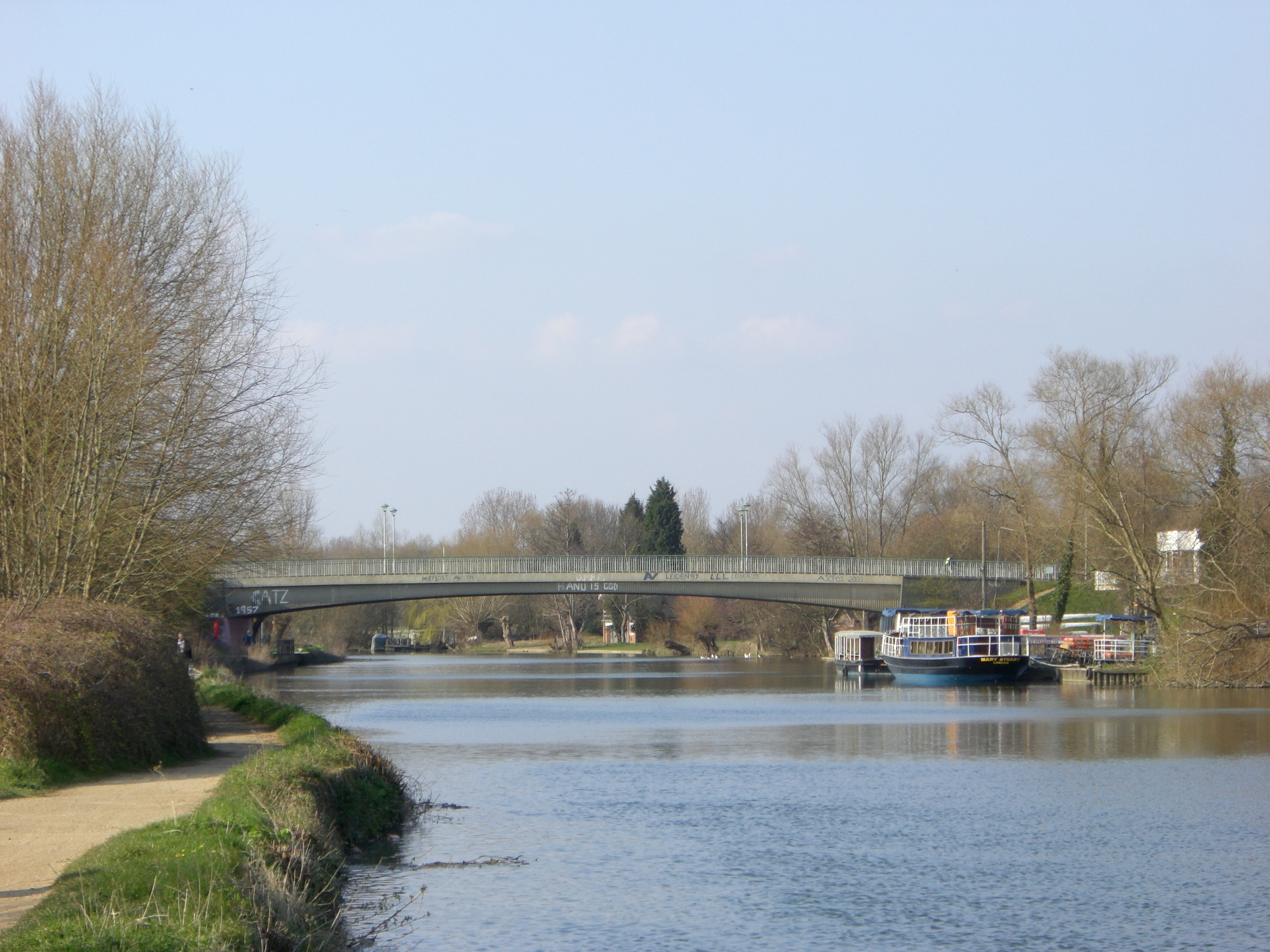 Donnington Bridge over the River Thames in Oxford: view looking upriver from the south.